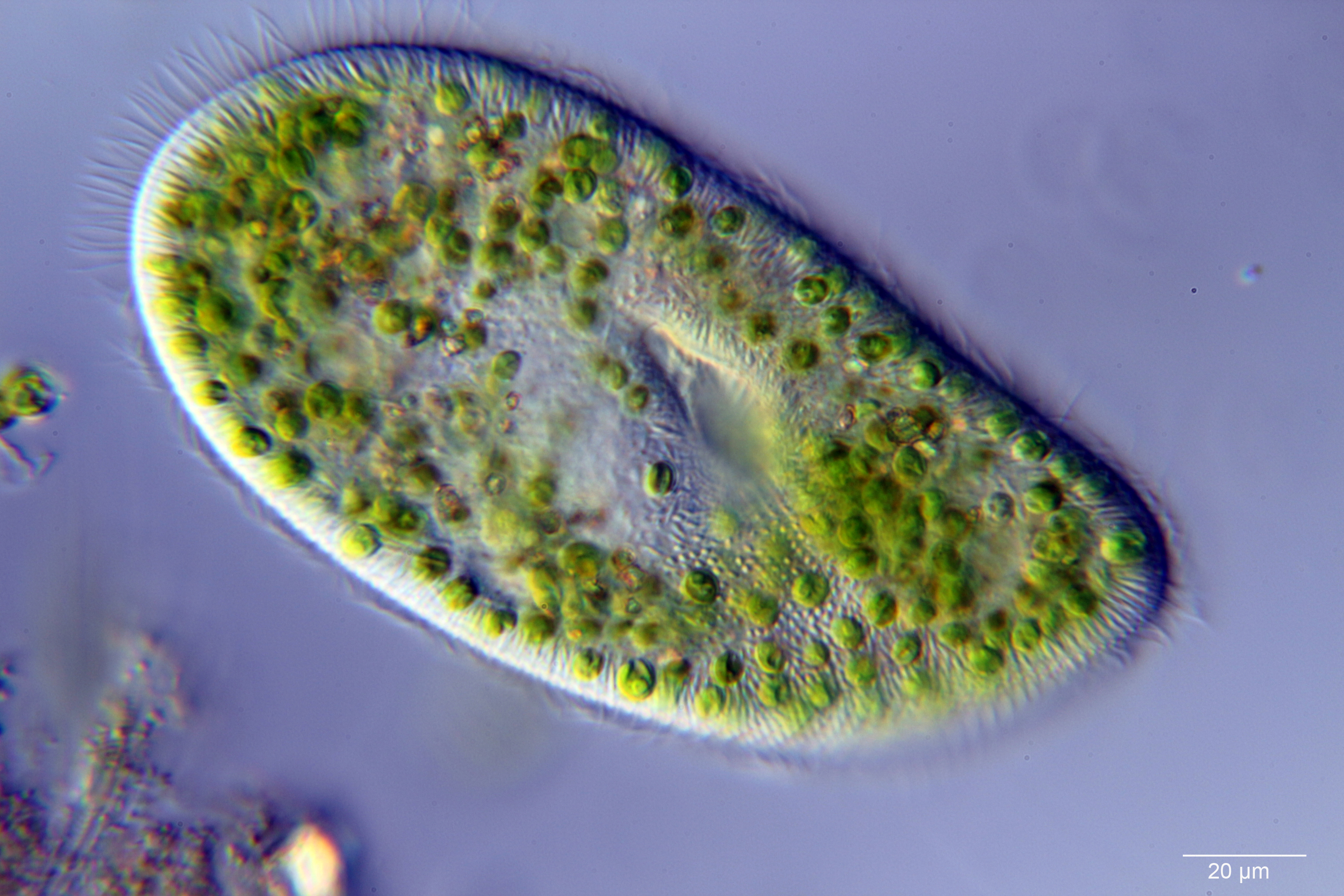 Ciliate: Paramecium bursaria Her. It has a mutualistic endosymbiotic relationship with green algae called Zoochlorella. The algae are clearly visible in ciliate cytoplasm. Light microscopy, differential interference contrast (DIC)